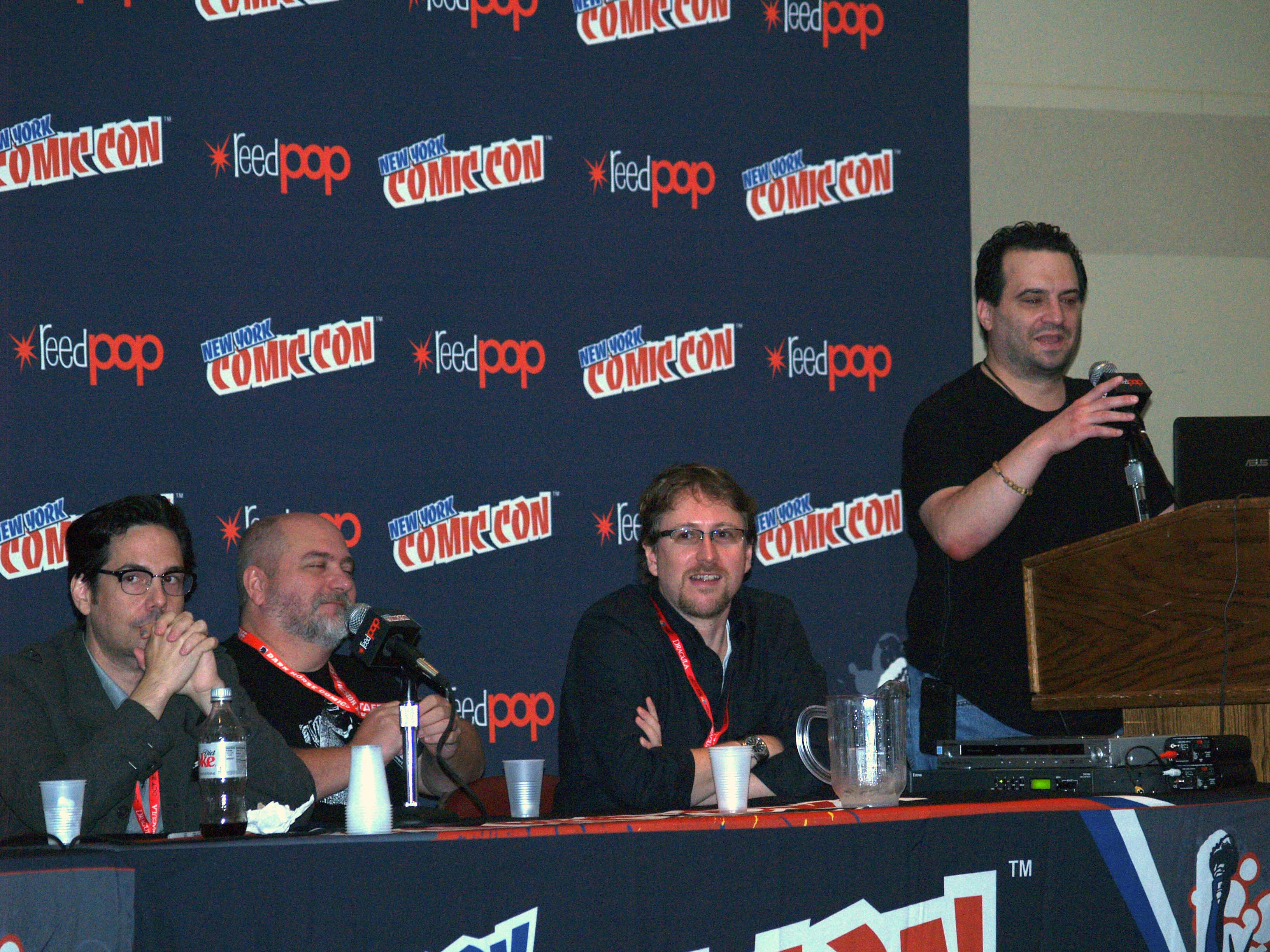 Dynamite Entertainment panel on Sunday, October 13, 2013 at the Jacob K. Javits Convention Center in Manhattan, Day 4 of the 2013 New York Comic Con. From left to right: Artist Dennis Calero, writer/artist Matt Wagner, writer Andy Diggle and an unidentified moderator. This photo was created by Luigi Novi. It is not in the public domain, and use of this file outside of the licensing terms is a copyright violation.